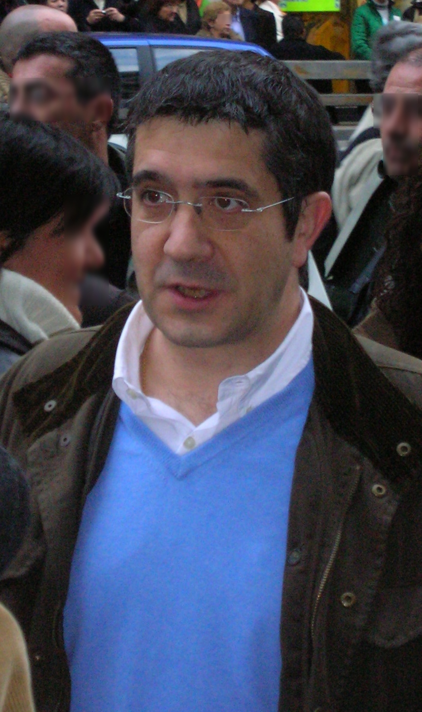 Patxi López, Secretary General of the Socialist Party of Euskadi